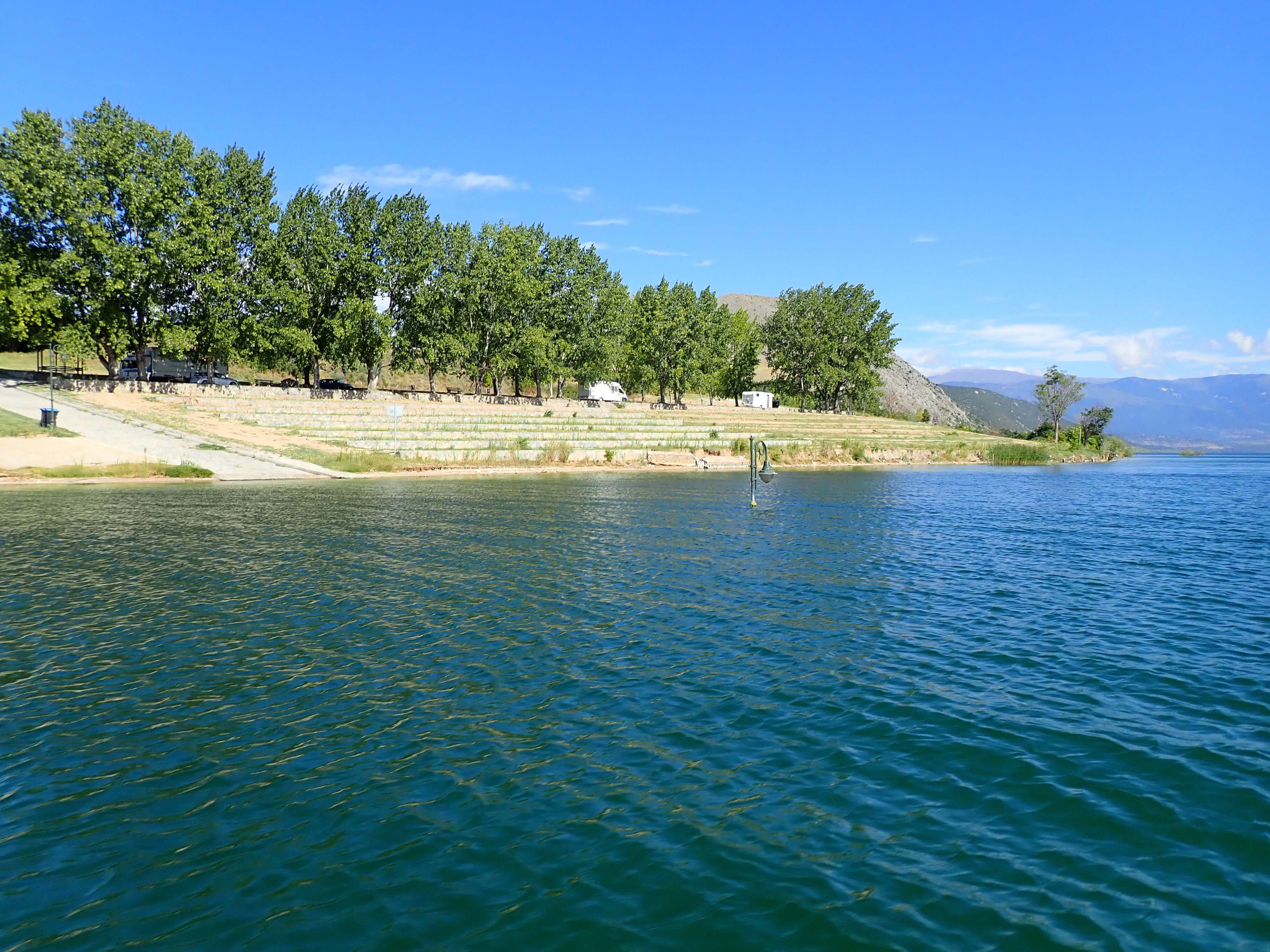 This is a photography of Natura 2000 protected area with ID GR1340004